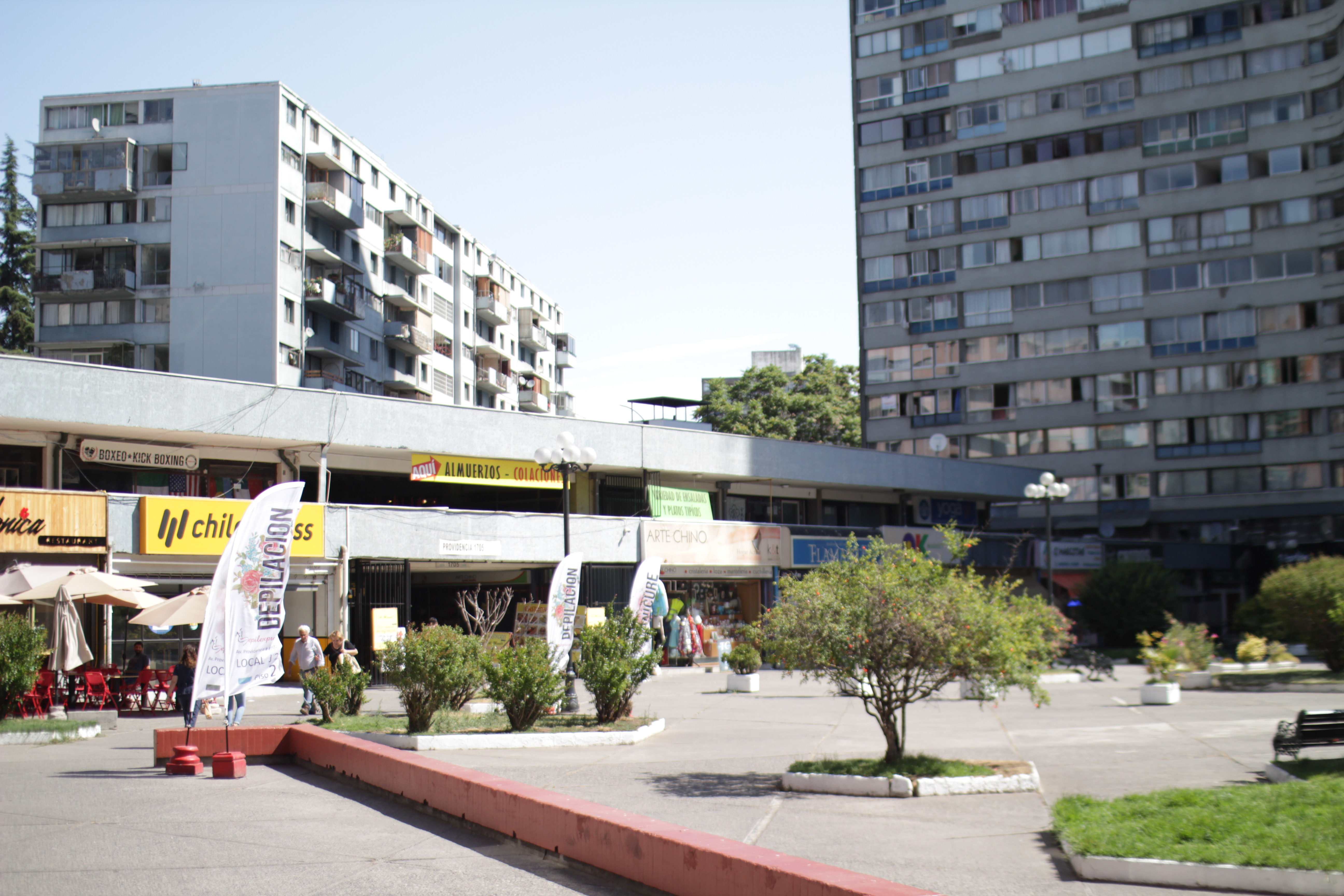 Central plaza of Torres Carlos Antúnez. On the right Tower A.